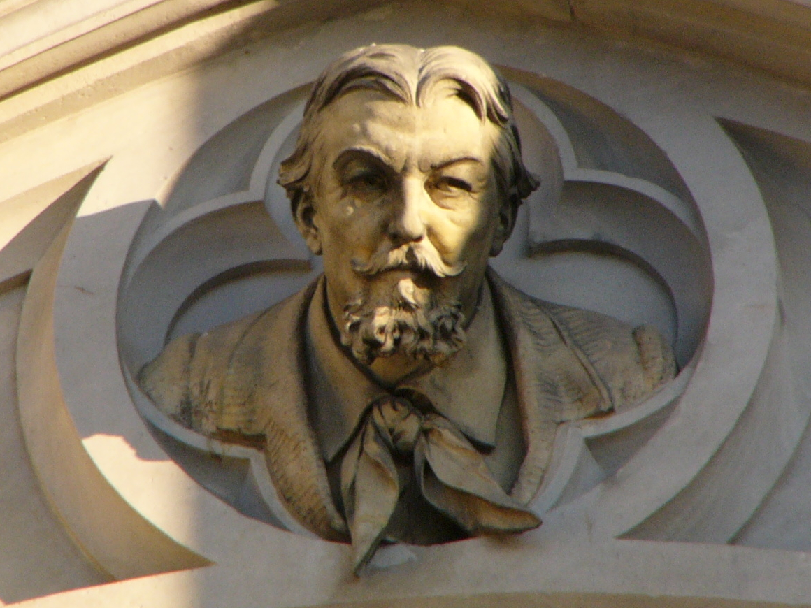 bust of architect Gustav Meretta